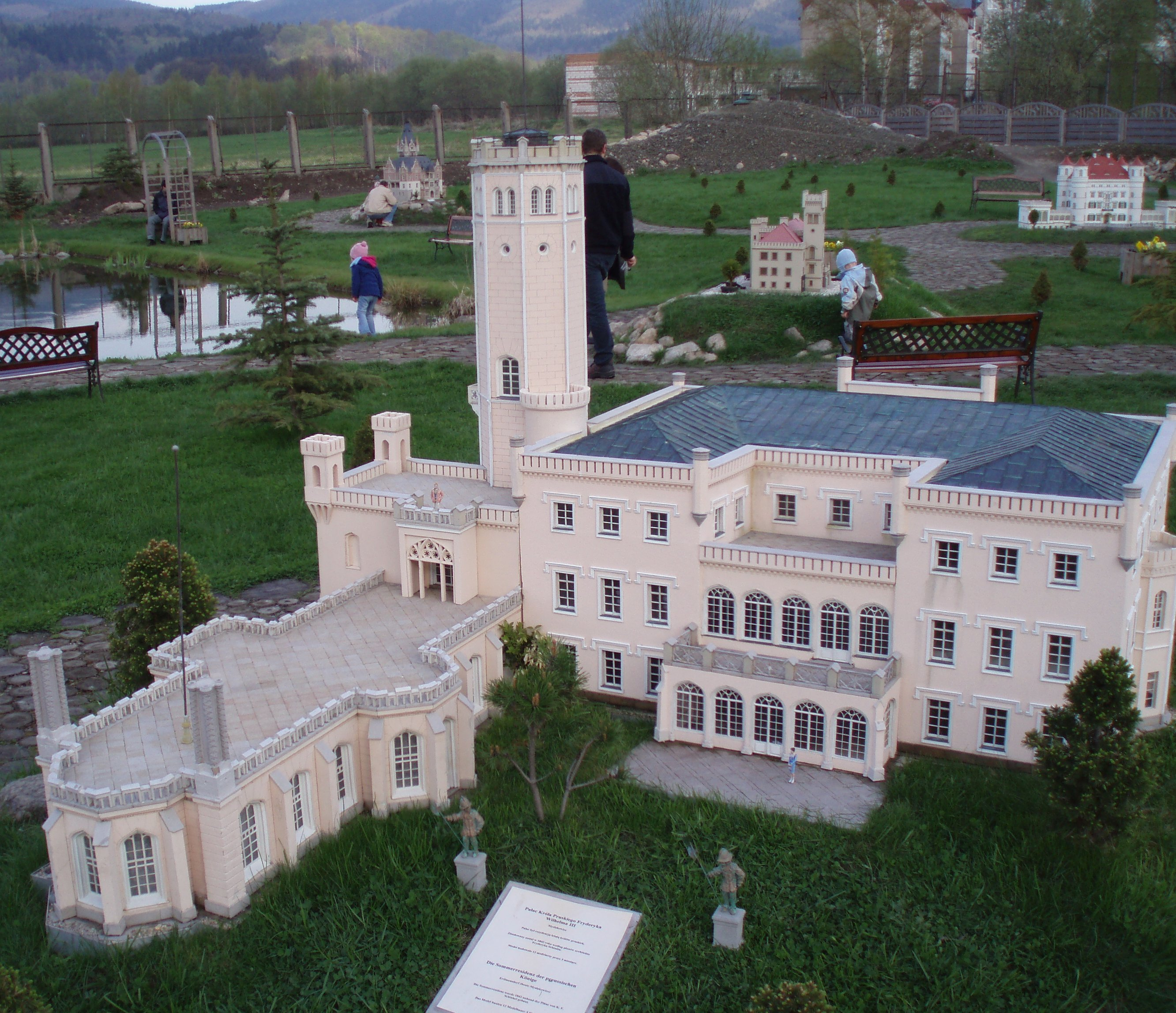 Chateau in Mysłakowice (Erdmannsdorf-Zillerthal) - model